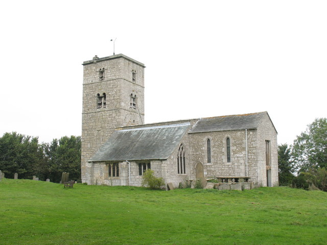 All Saints Church, Appleton le Street The church is notable for its 11th century pre conquest tower, which is one of the best examples in Yorkshire. The chancel was shortened after the east wall began to collapse down the slope.